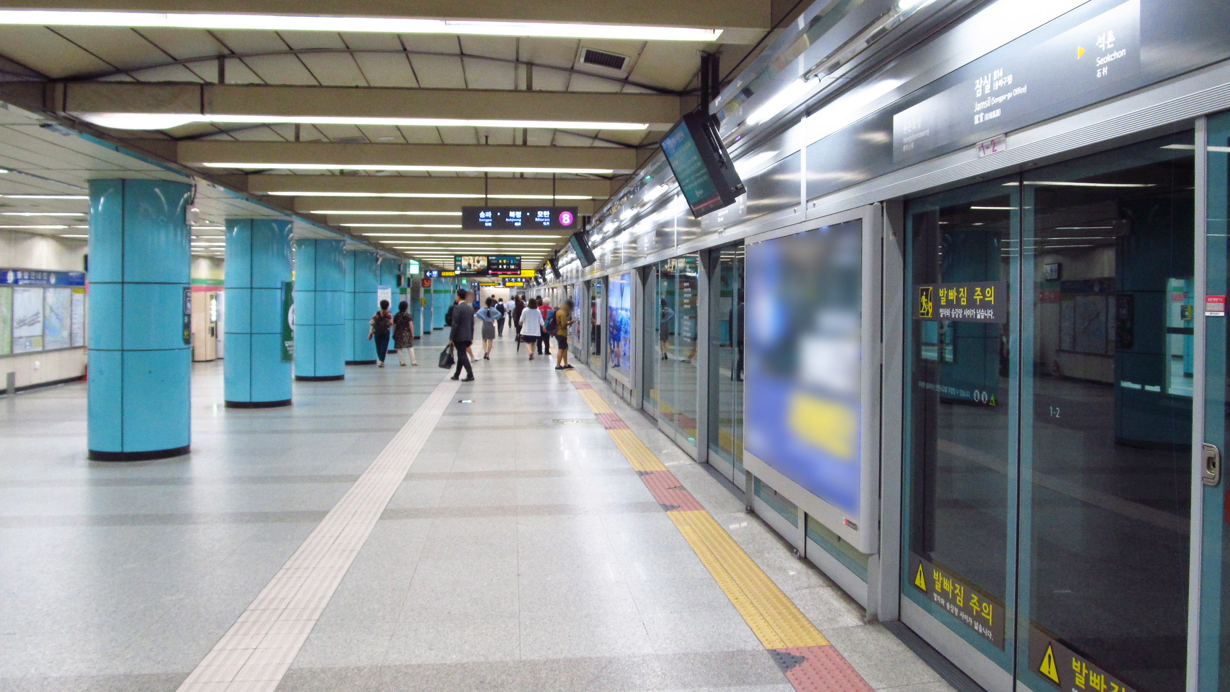 The platform at Jamsil Station on Seoul Subway Line 8 in Songpa-gu, Seoul, Republic of Korea(South Korea)